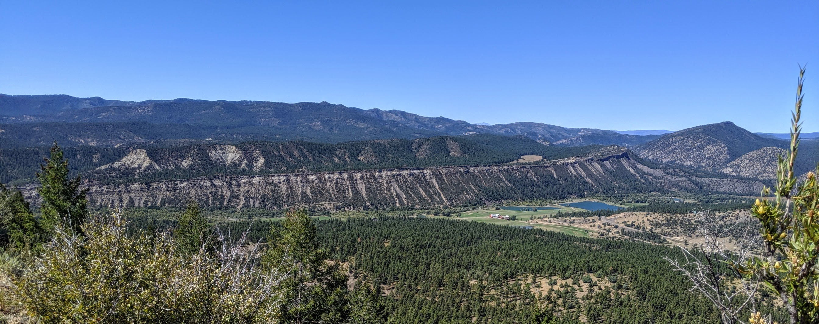 Piedra River valley, looking west from the high ridge in Chimney Rock National Monument. The river runs near the edge of the cliffs.